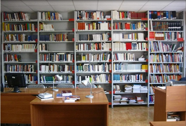 Räumlichkeiten der Östererich-Bibliothek Tiflis